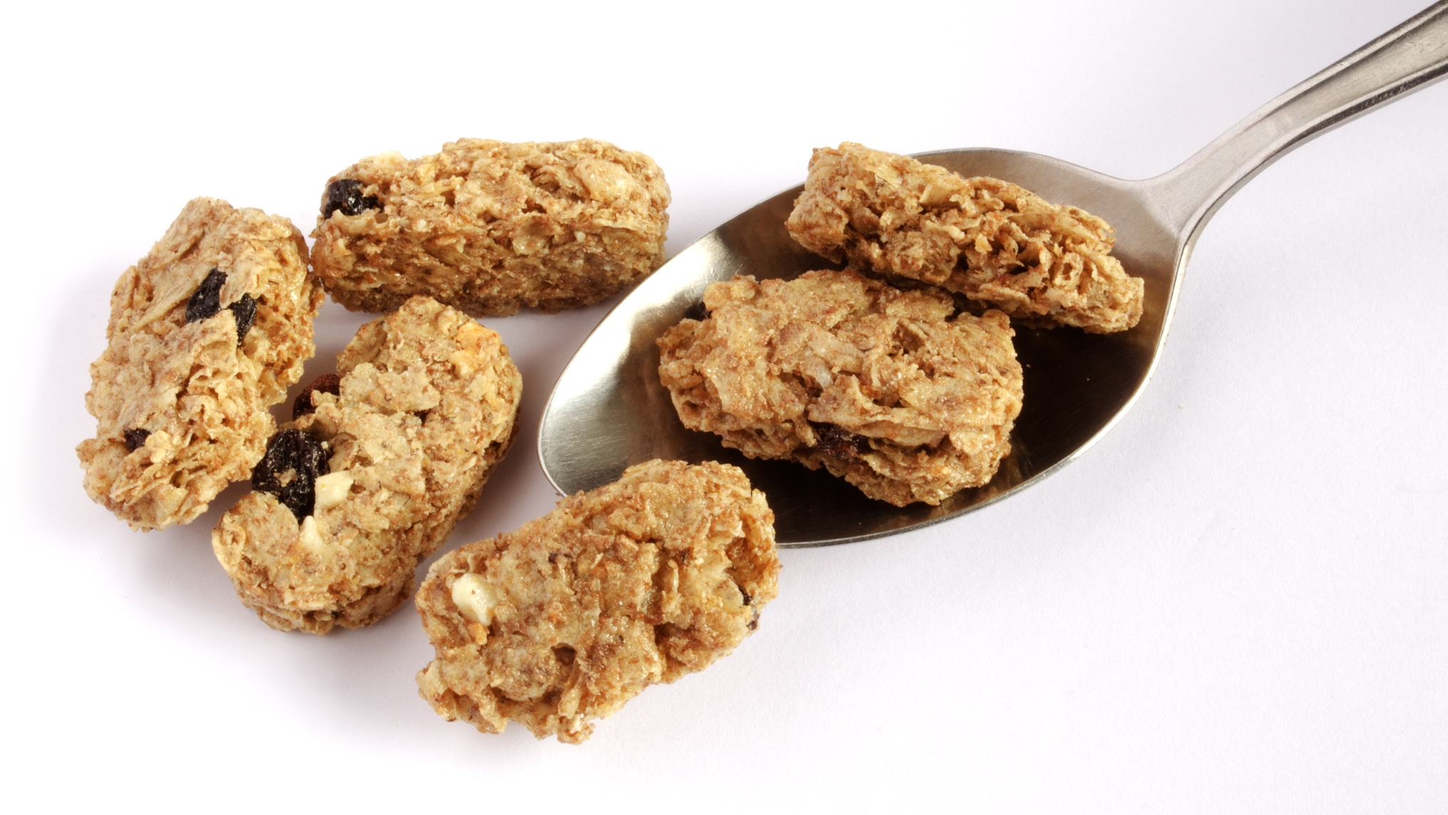 Weetabix Crispy Minis (Fruit & Nut variety), as sold on the UK market. These have changed their name several times and were previously known as "Fruitibix", "Minibix" and "Weetabix Minis". Dessert spoon included for scale.